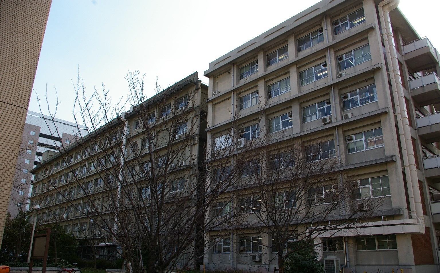 It was taken by 火国男児 (talk) in Kyushu.